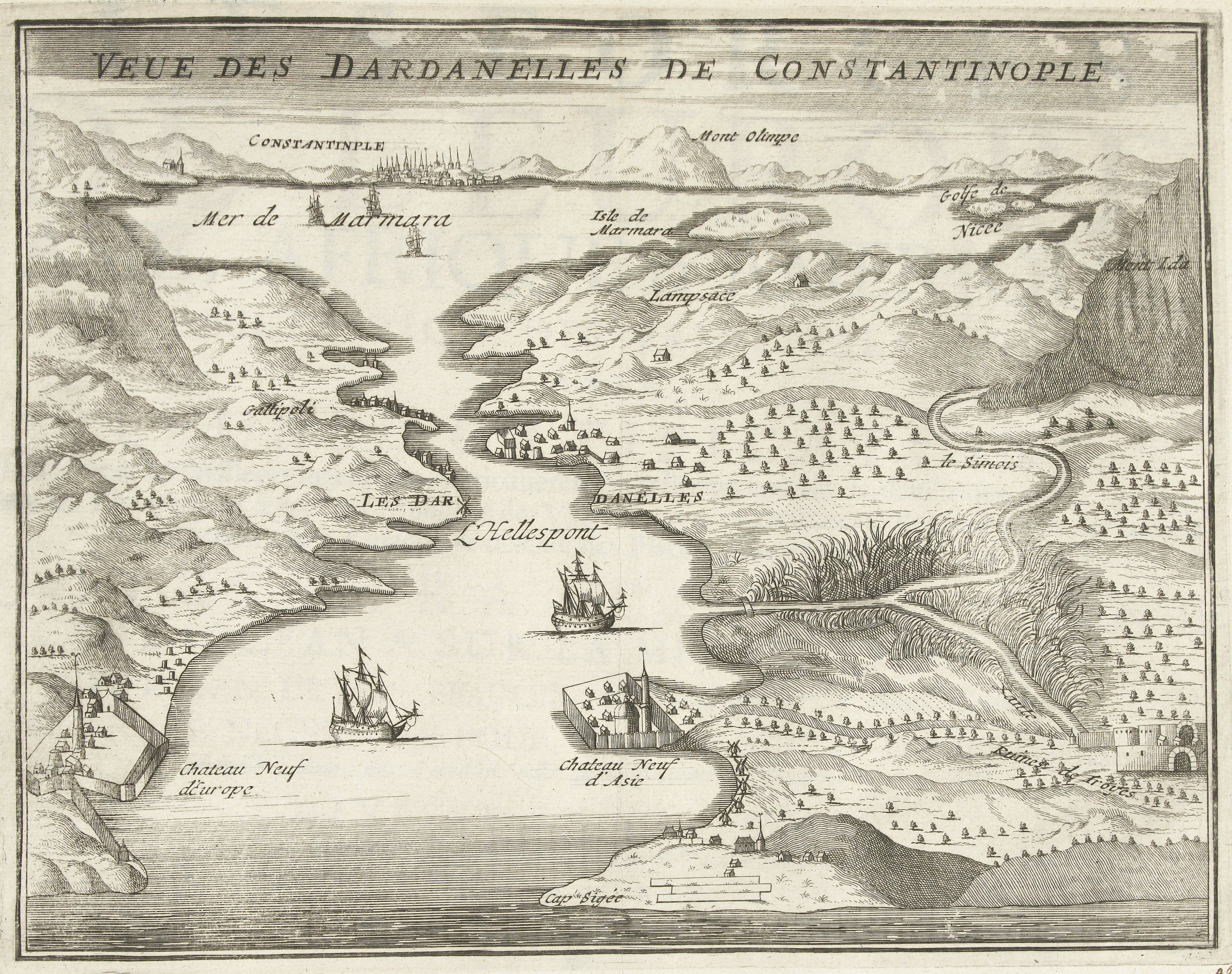 View of the Dardanelles with Constantinople in the distance. Etching. Included in: Les Forces de l'Europe, Asie, Afrique et Amerique (...) Comme aussi les Cartes des Côtes de France et d'Espagne, delen XI-XX, 1726